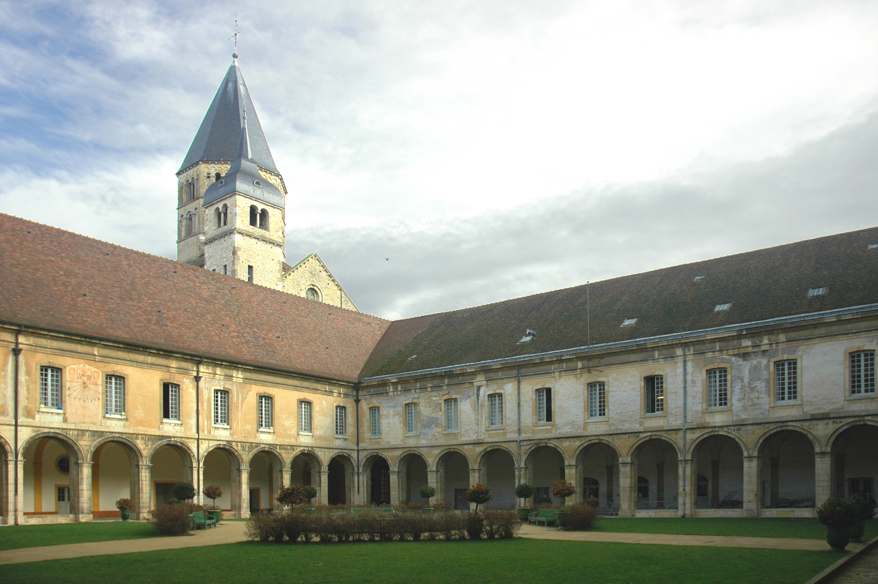 Abbey of Cluny France